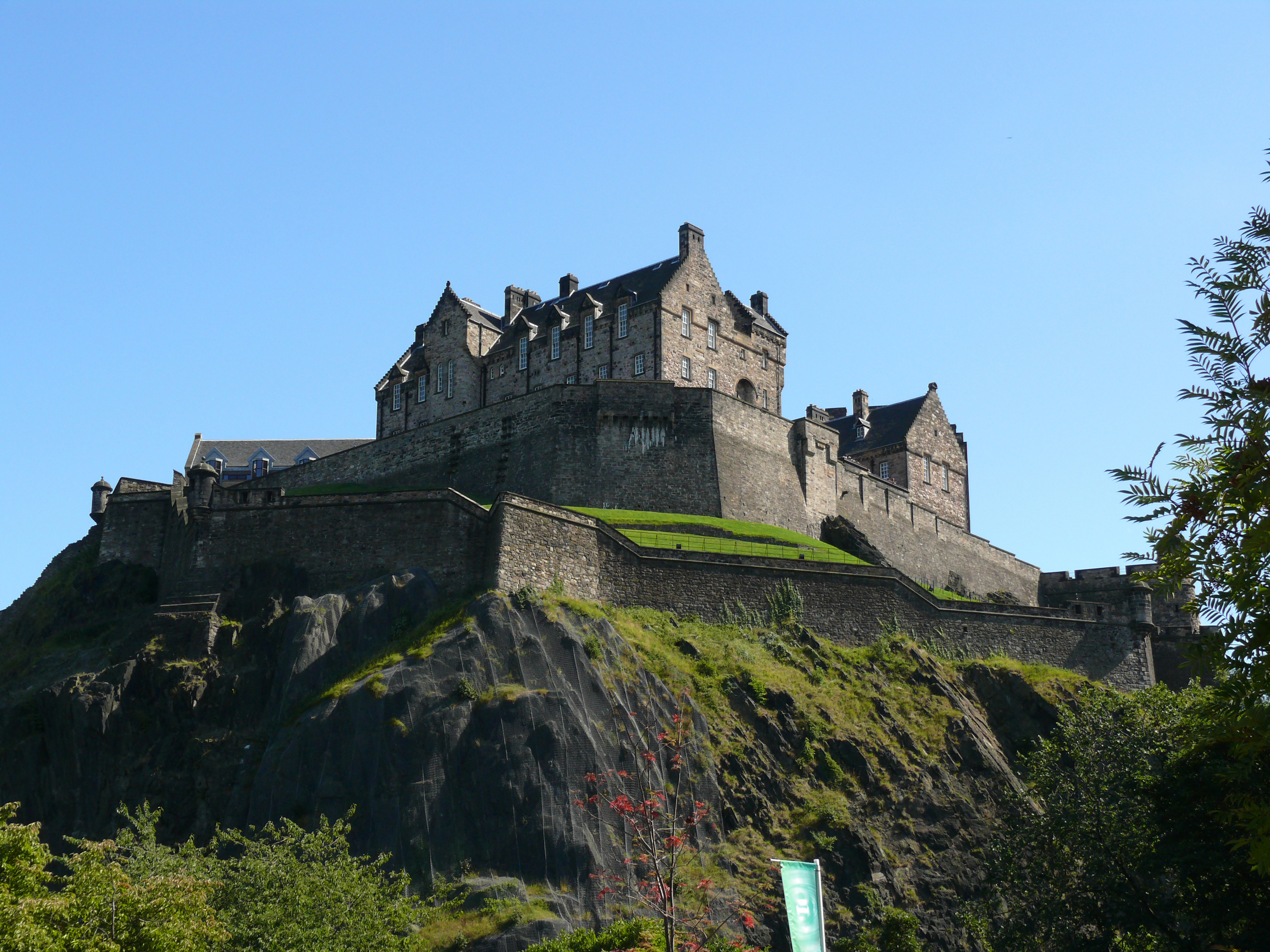 Edinburgh Castle as seen from Princes Street Gardens. Edinburgh Castle is a castle fortress which dominates the skyline of the city of Edinburgh, Scotland, from its position atop the volcanic Castle Rock.